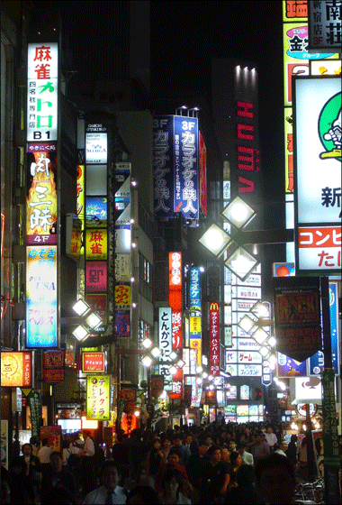 Kabukicho, Tokyo